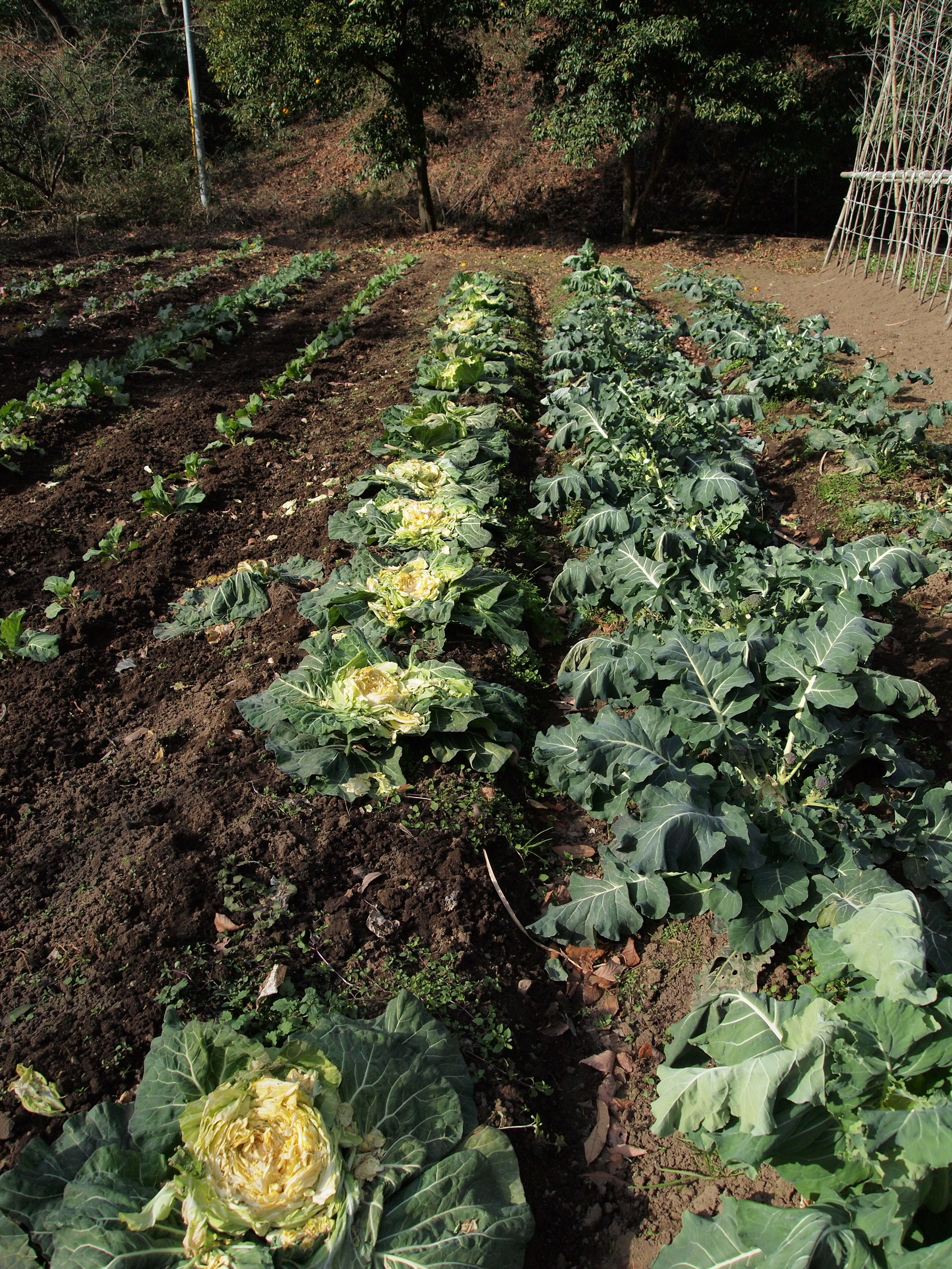 Feeding damage of Cabbage by Japanese Macaque